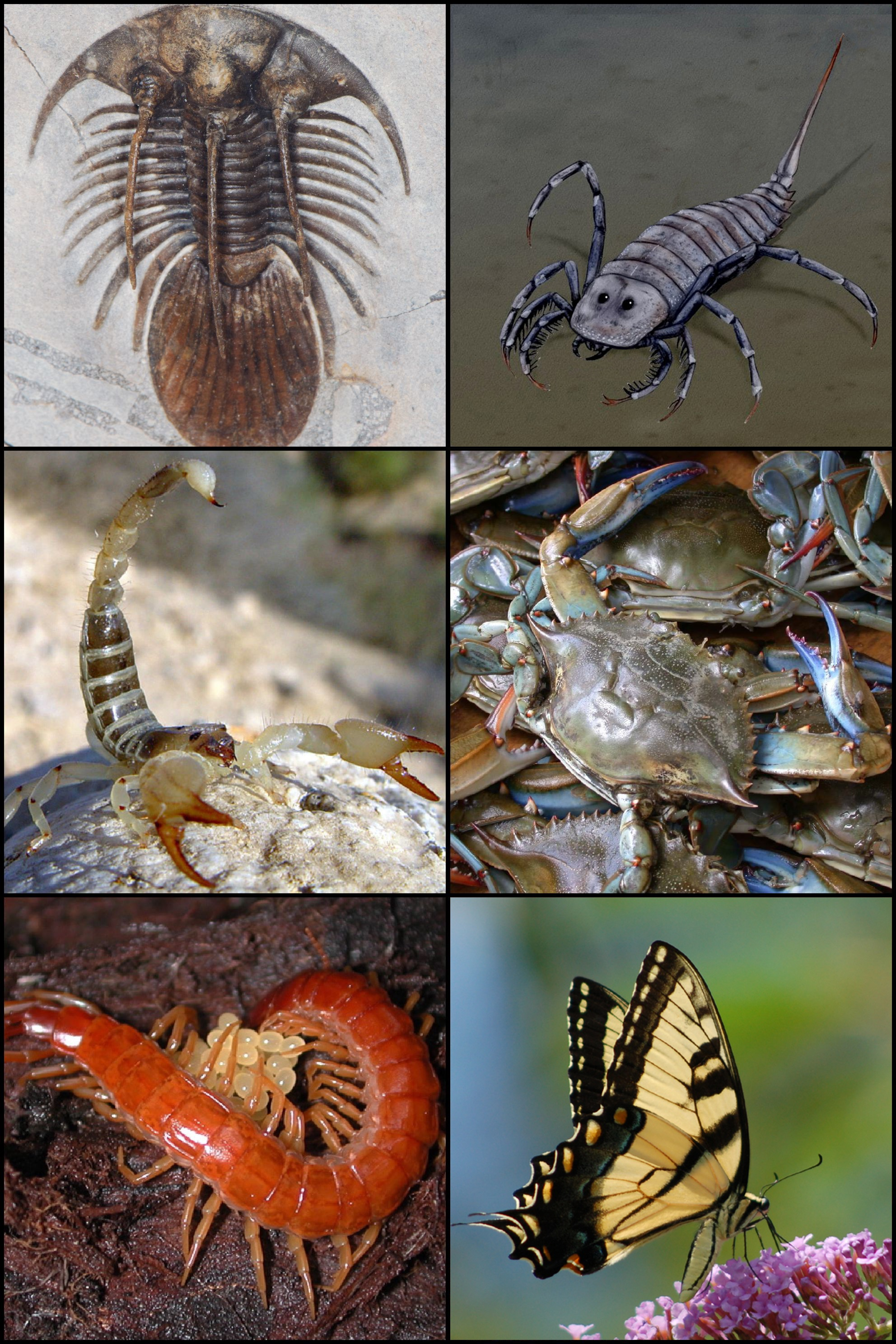 Arthropoda collage. From left to right and from top to bottom: Kolihapeltis, Stylonurus, scorpion, crab, centipede, butterfly